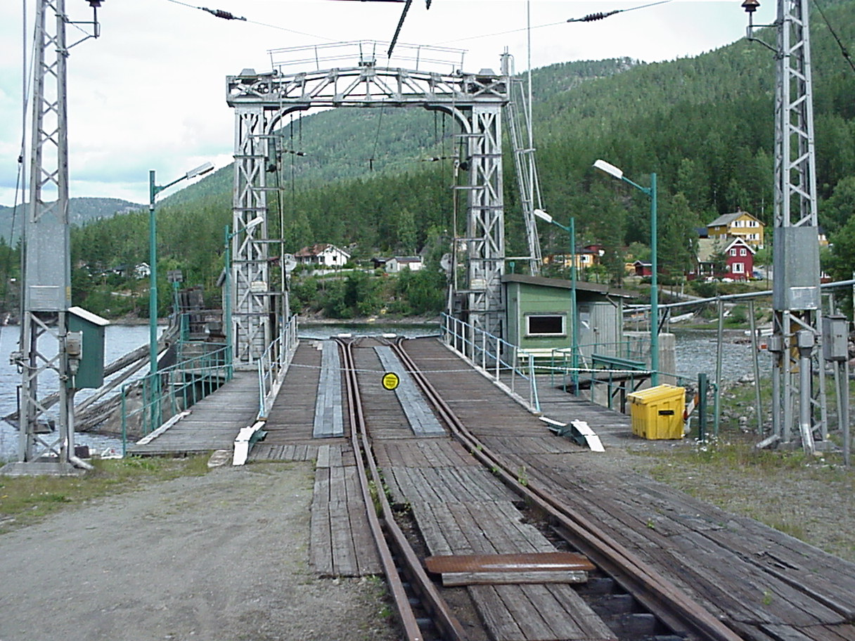 Tinnoset station, end of the Tinnoset Line: Traject to Mæl